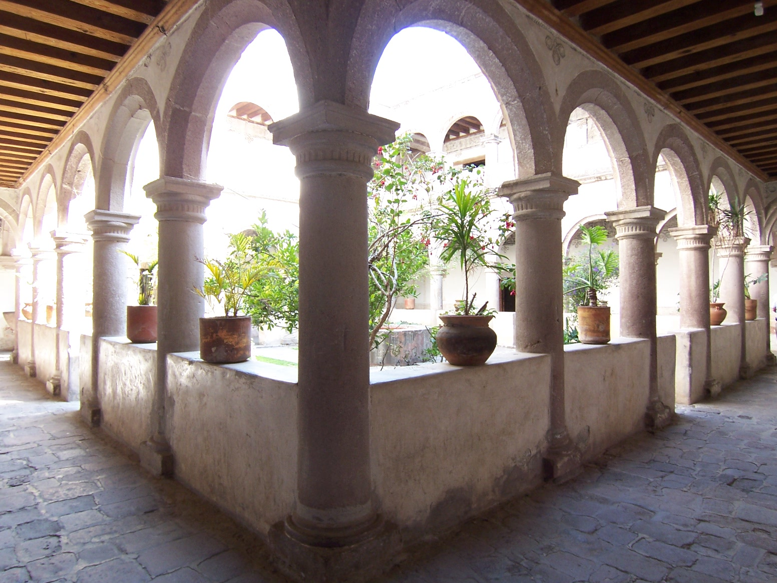 ... y hay 40 tomas más de arcos